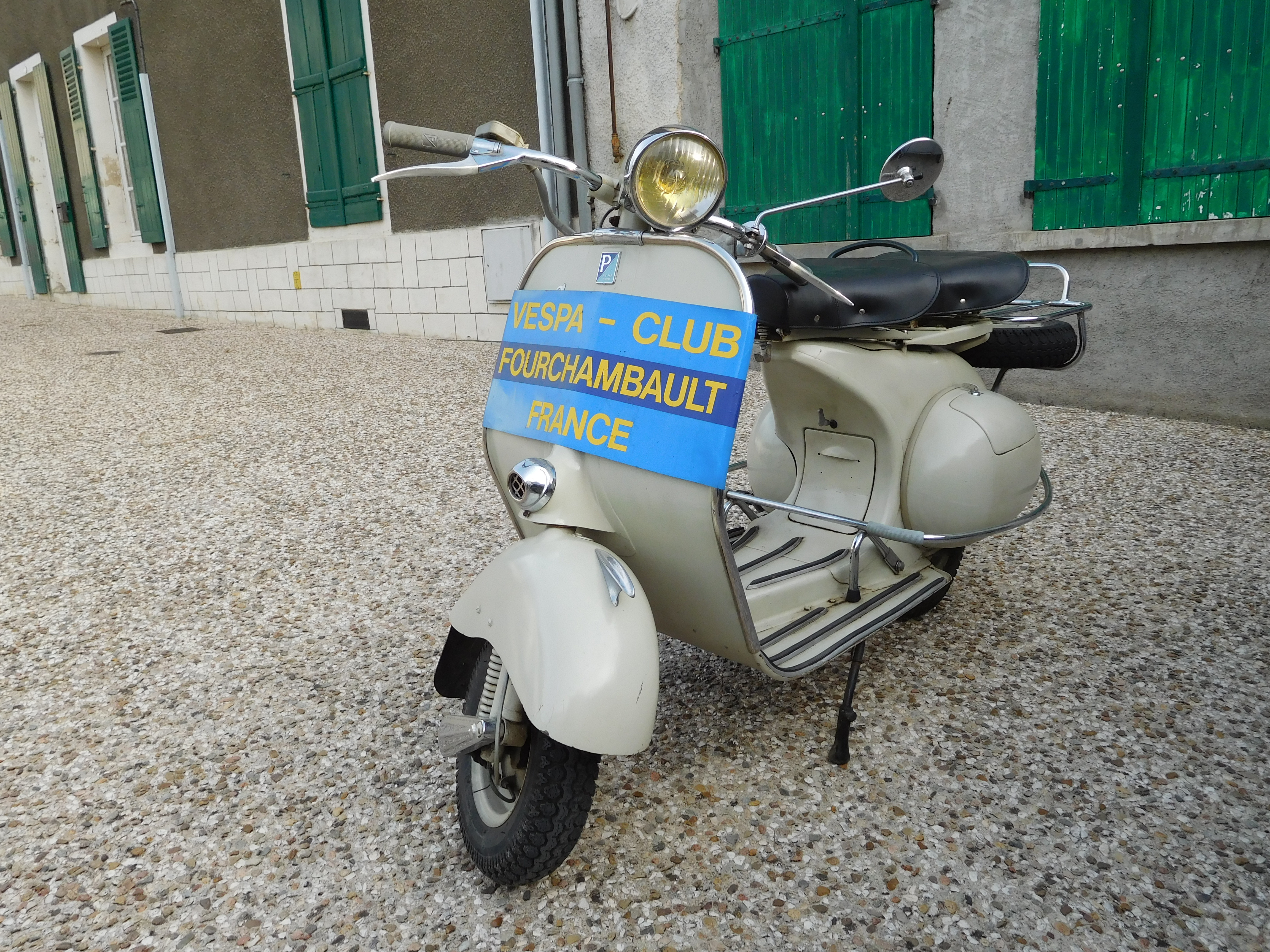 Vespa ACMA 125 made under licence from Piaggio in France by ACMA (Ateliers de construction de motocycles et d'automobiles) in Fourchambault.